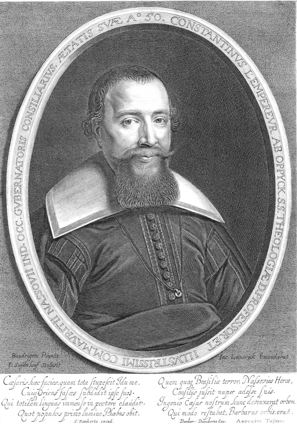 Constantine L'Empereur Oppyck van (1591-1648) German Reformed theologian, philologist and Orientalist